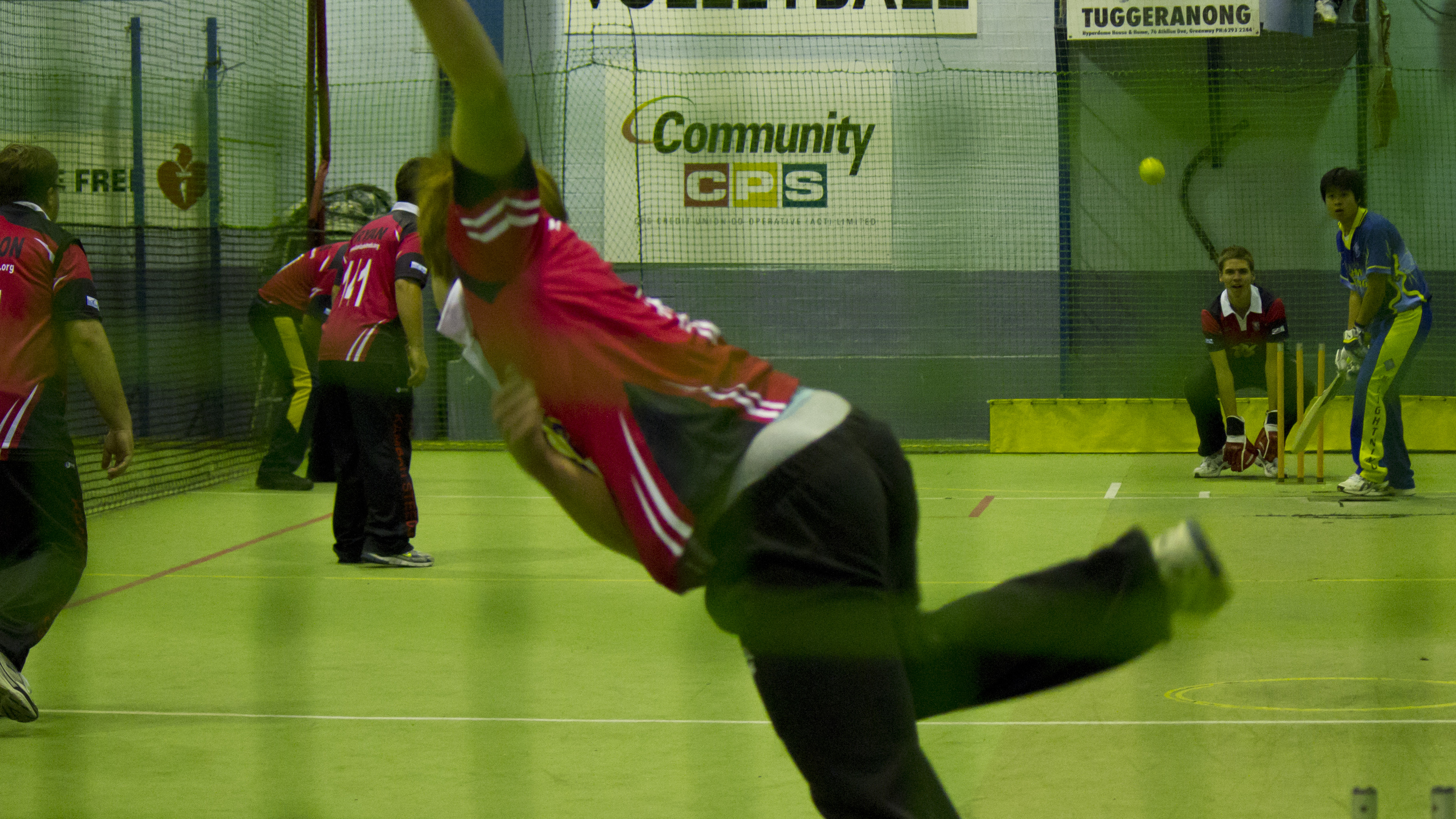 This is a photo of a game of indoor cricket in progress.